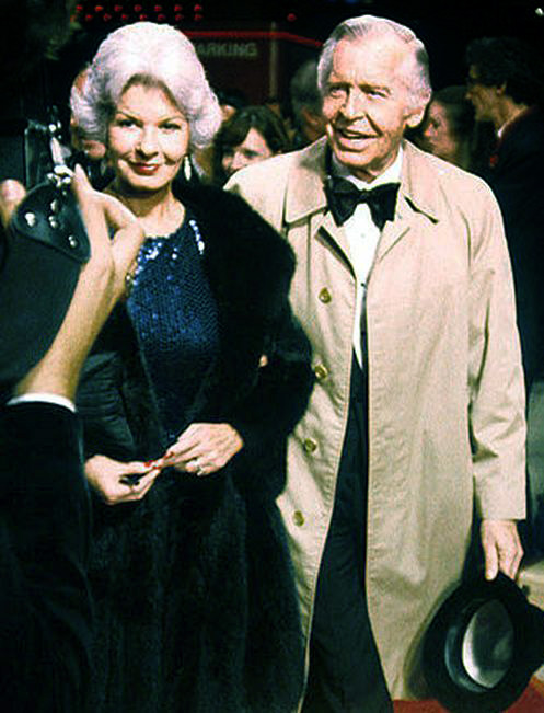 Milton Berle and wife arrive at the premiere of Bette Midler's movie, THE ROSE, 1979.